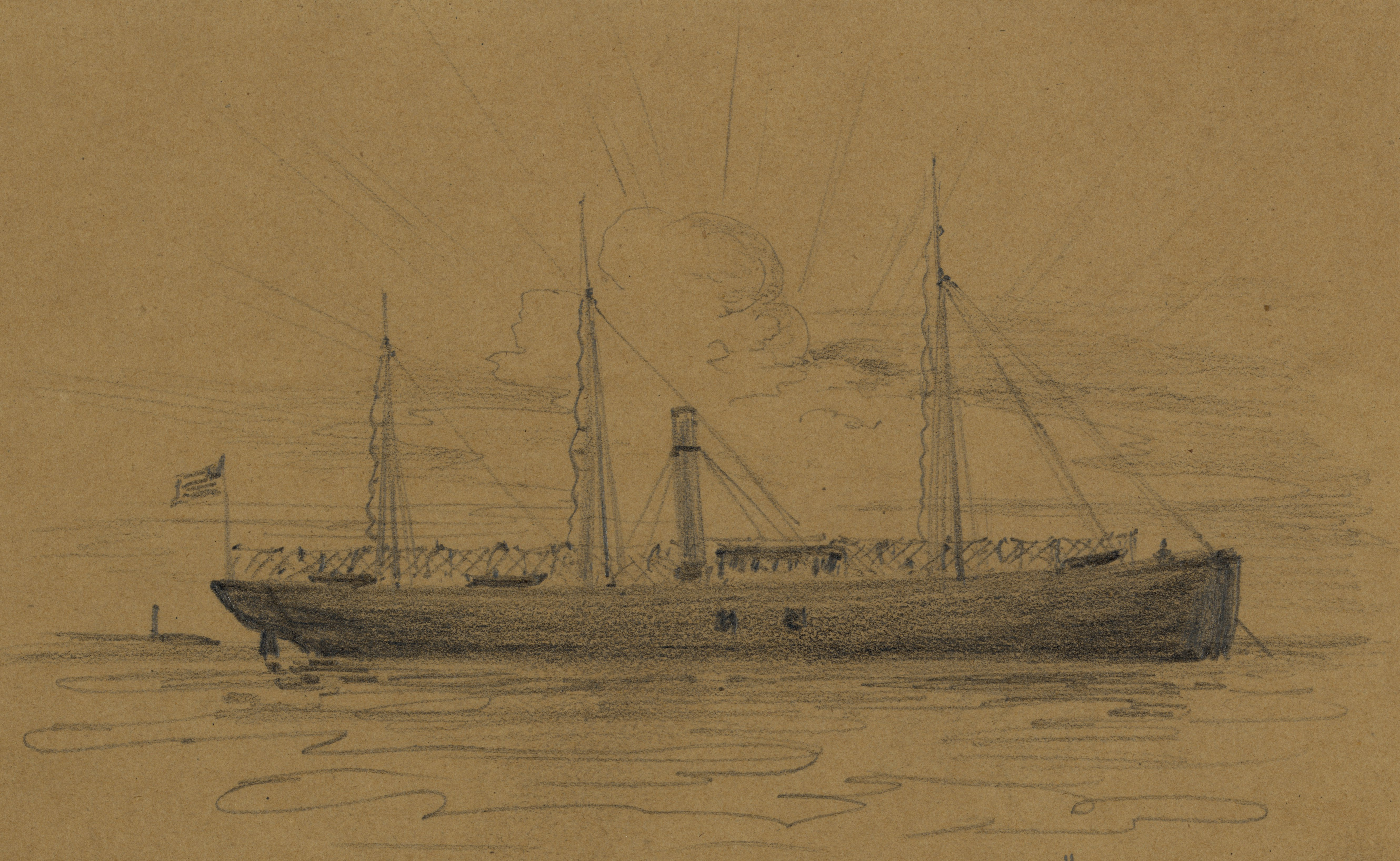 The gunboat USS Daylight. Originally built in 1859 for operation on Long Island Sound as a merchant steamer, Daylight was purchased by the Navy in 1861 and used as a gunboat through the American Civil War.